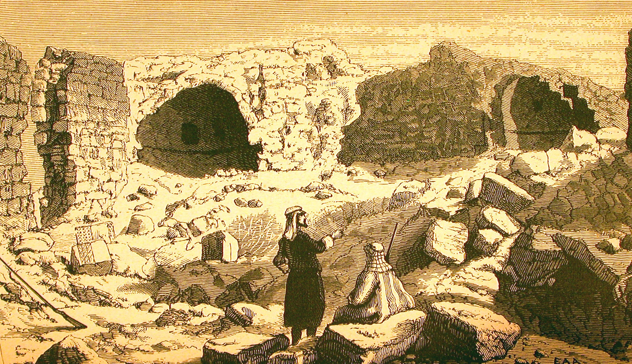 Illustration of church ruins at El'Aujeh (present day Nitzana), Negev Desert. From Palmer (1872) The Desert of the Exodus.